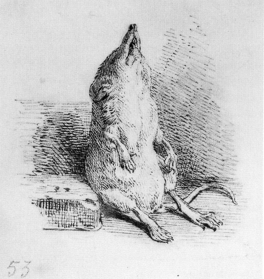 Drawing "Musaraigne assise" (sitting shrew) of the french artist J. J. Grandville, pen-and-ink drawing.